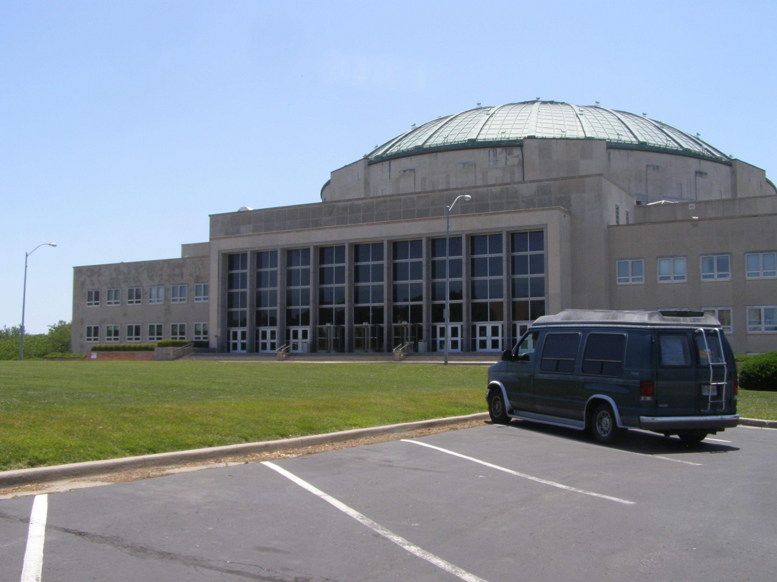 Auditorium (Community of Christ), Independence, MO.